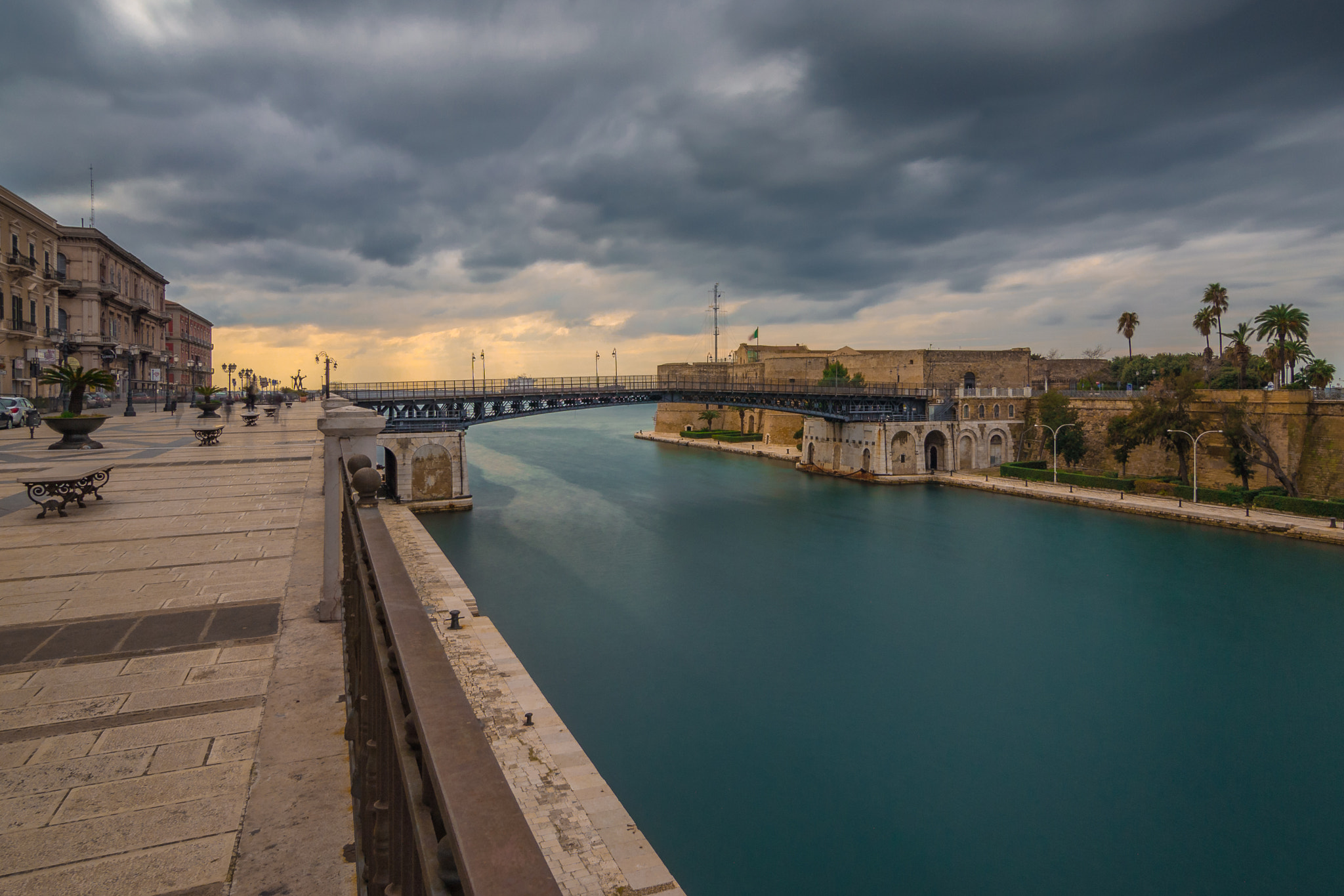 The revolving bridge of Taranto that connects the city? old to the city? new [#nikon ,#long exposure ,#nd1000 ,#tokina 116 ,#haida ,#Italia ,#Puglia ,#Taranto ,#Ponte girevole]